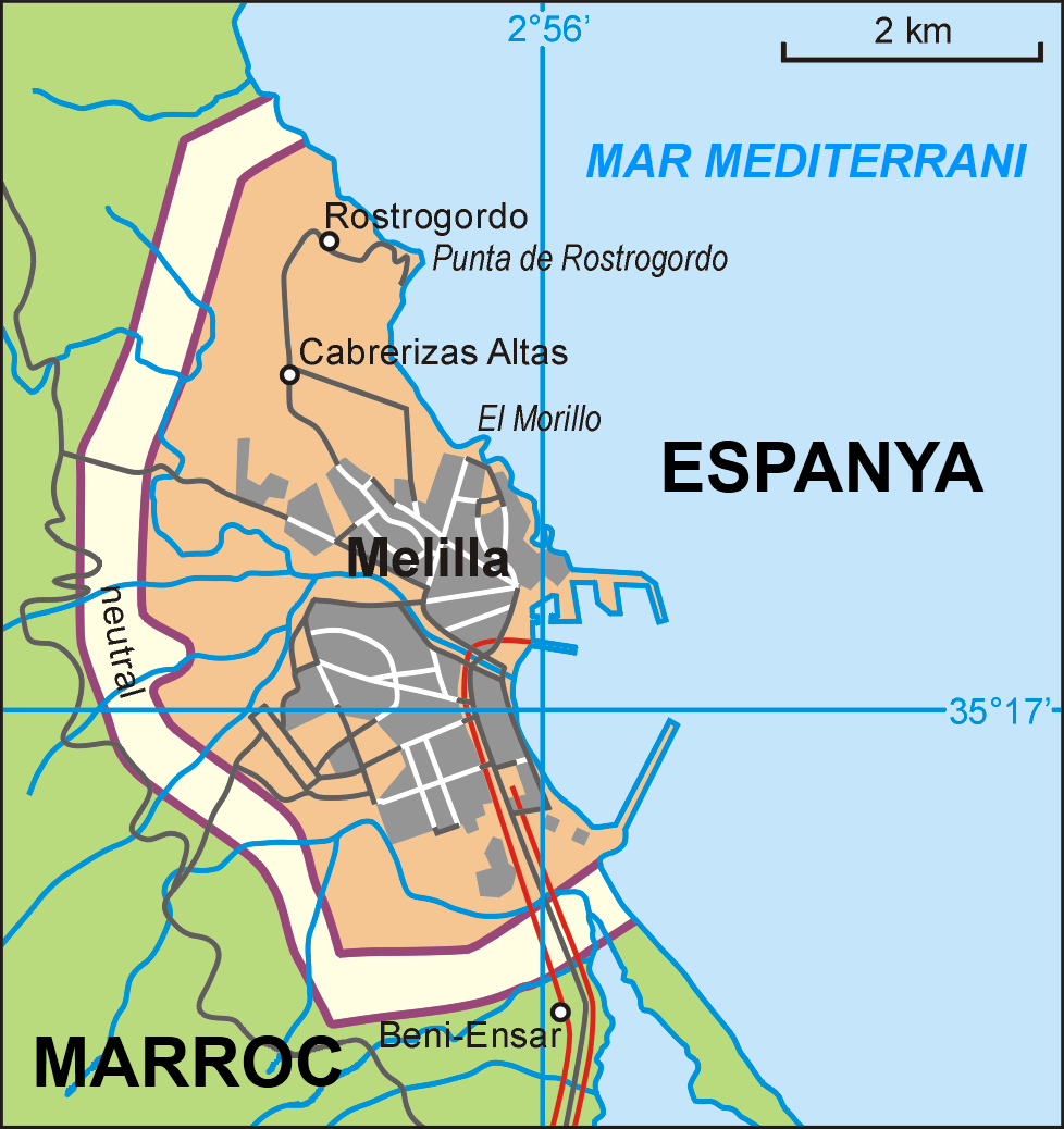 Map of Melilla in Catalan.